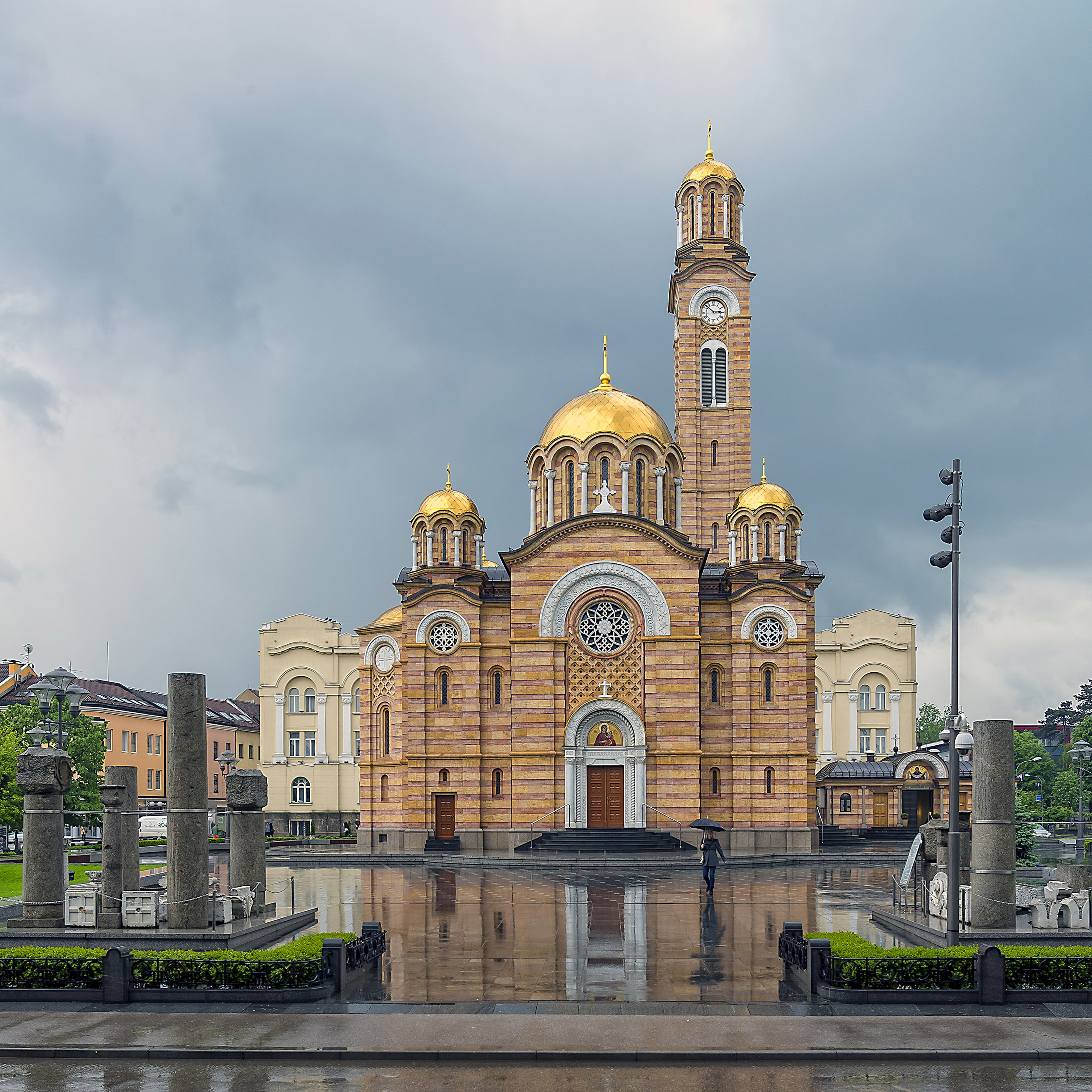 Saborna Crkva Hrista Spasitelja Banja Luka This image was uploaded as part of Trace of Soul 2016.